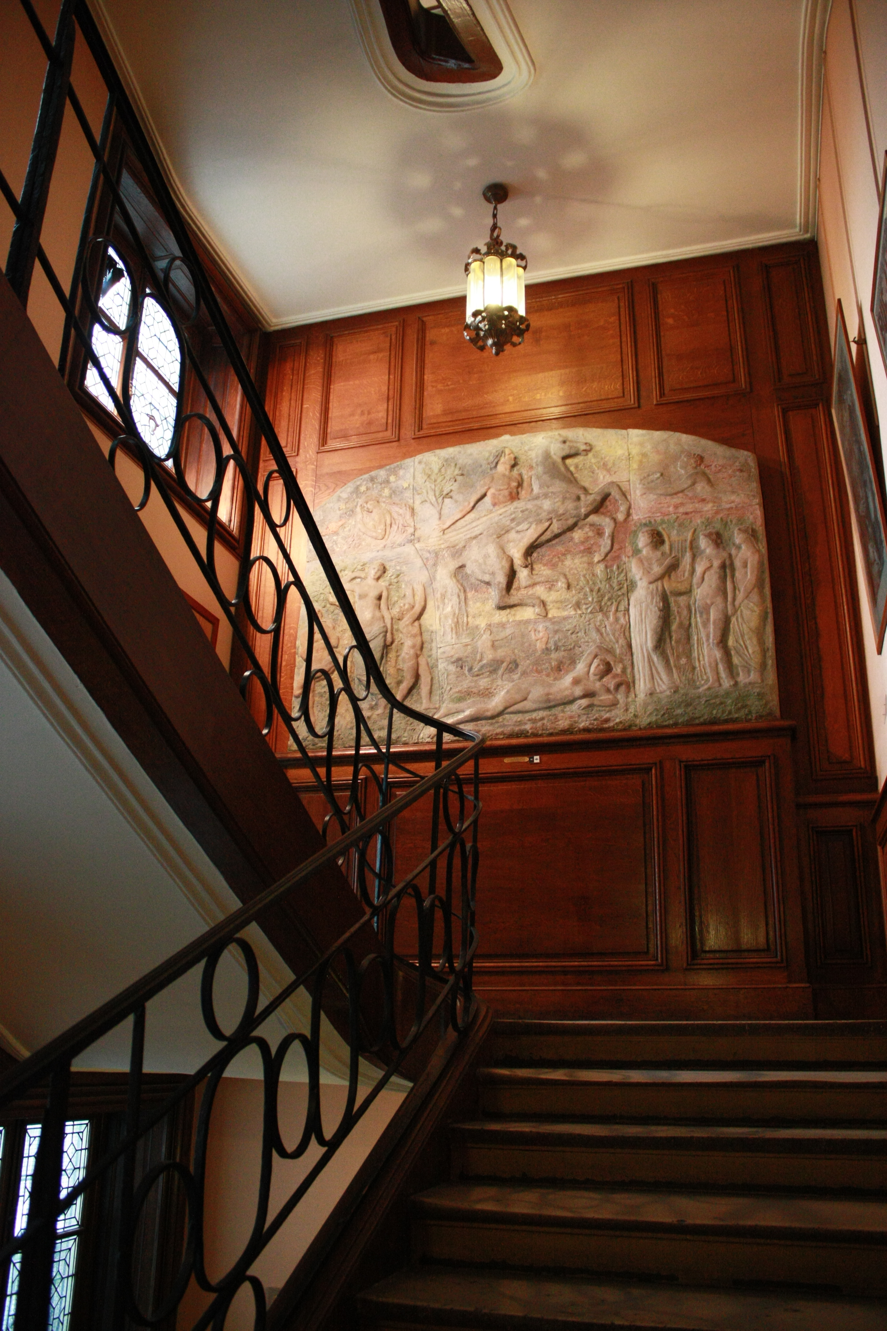 Stairs inside Victor Hugo House. Pâte de verre relief by Henry Cros: « Apothéose de Victor Hugo »